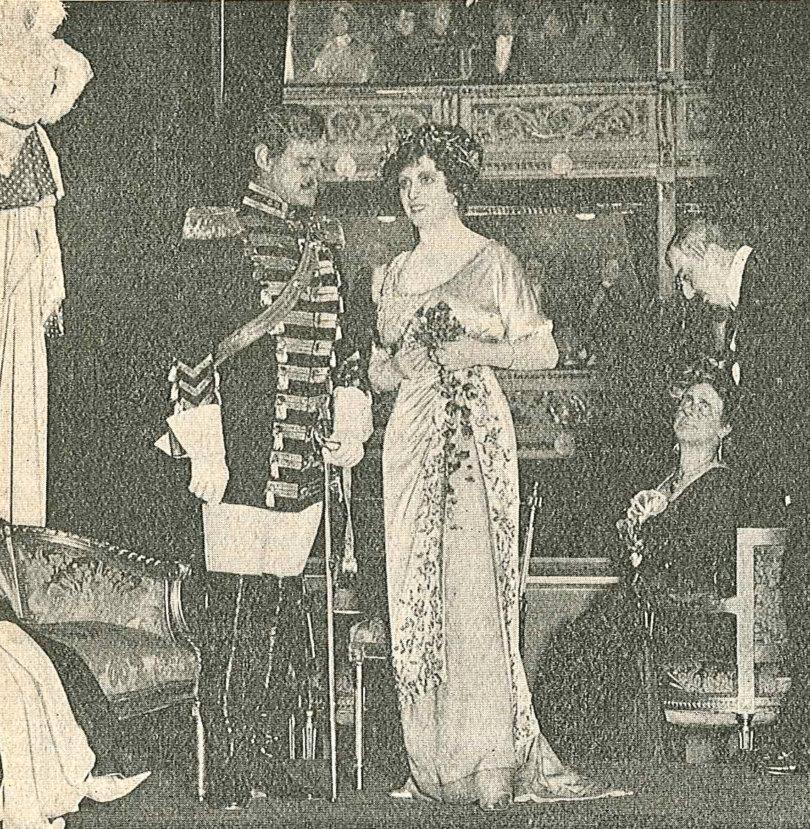 Scene from act 2 of the theatrical play Gardesofficeren by Ferenc Molnár at Svenska teatern, Stockholm in September 1911. In the main roles: Gunnar Wingård and Pauline Brunius. In the background to the right "Mrs Byström" (possibly Constance Byström) and "Mr Aréhn" (possibly Nils Aréhn).